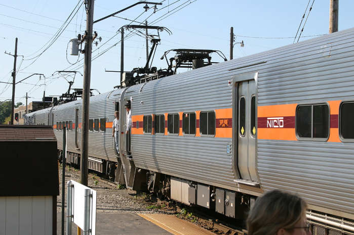 Shining South Shore and South Bend Railroad car